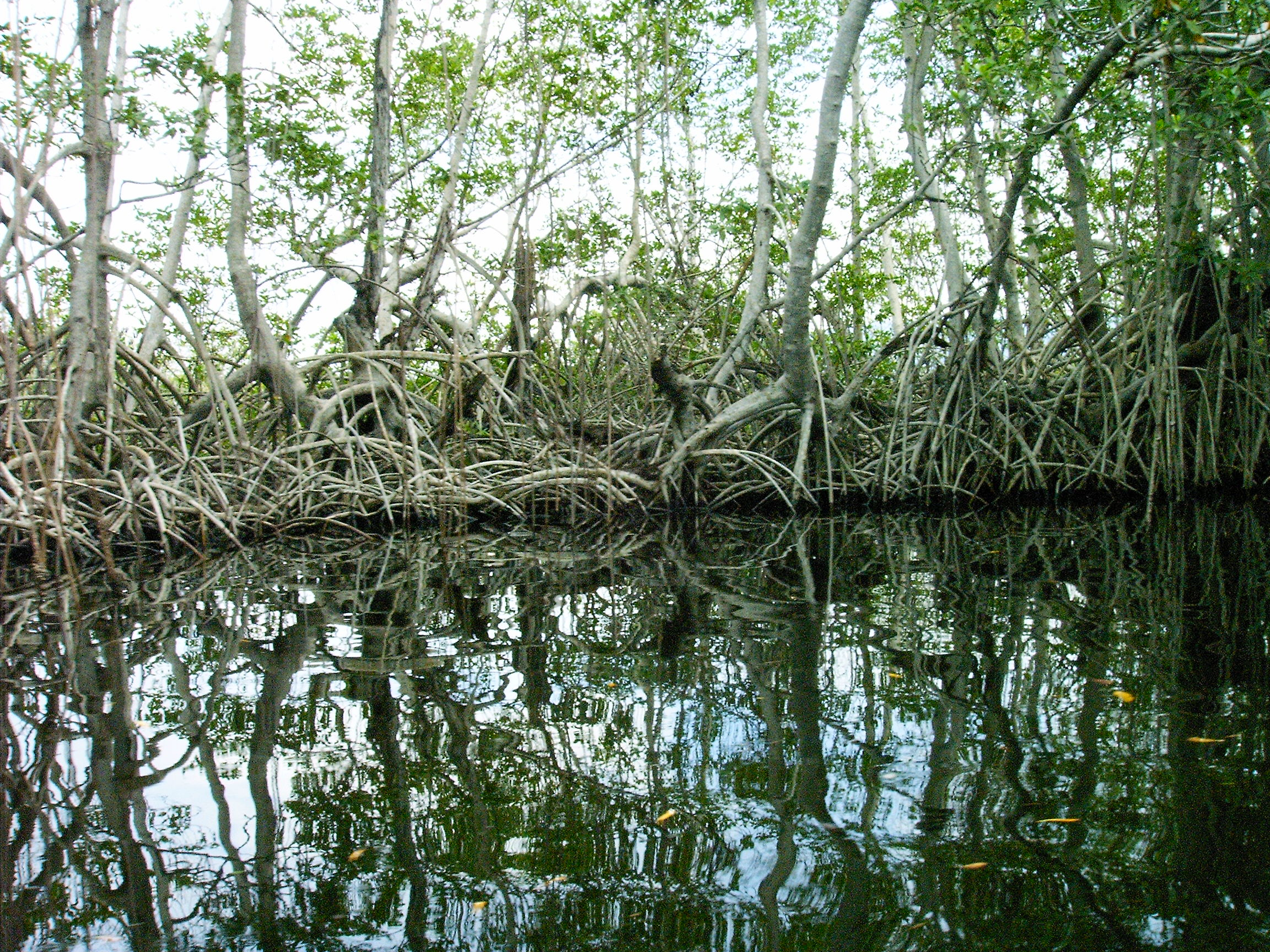 The Black is a river on the south coast of Jamaica that reaches the sea at a small port of the same name.